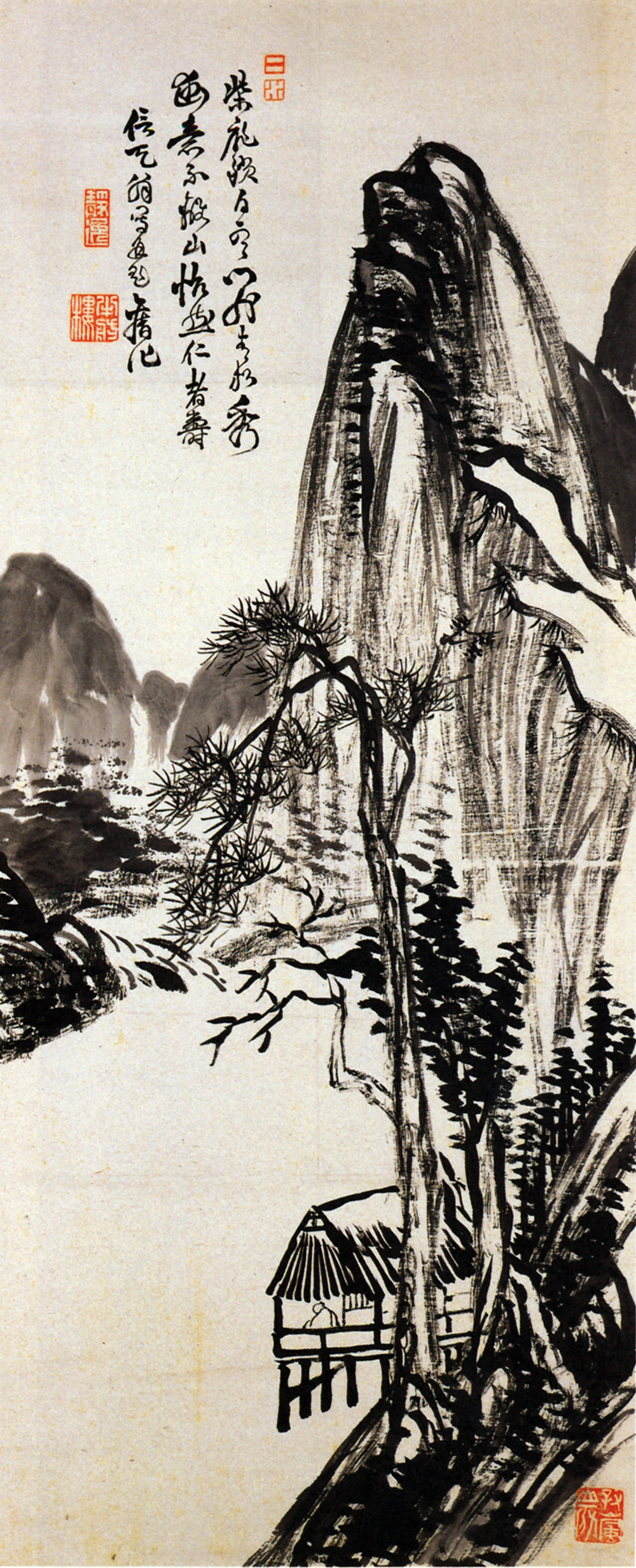 Yamanaka Seiitsu,Lamdscpe,ink on paper,hanging scroll